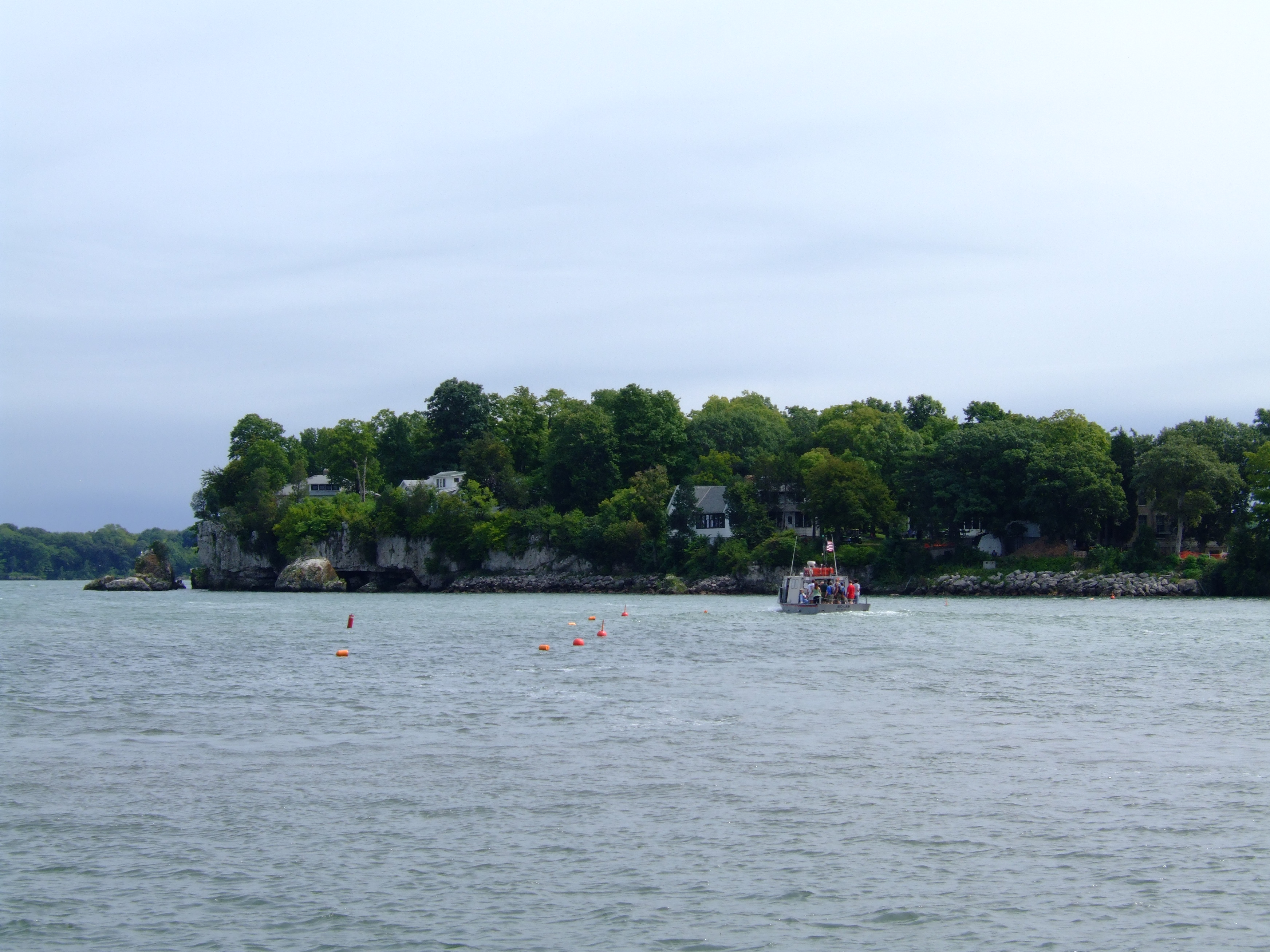 Gibraltar Island, part of the campus of The Ohio State University located on Lake Erie. Self made photo.